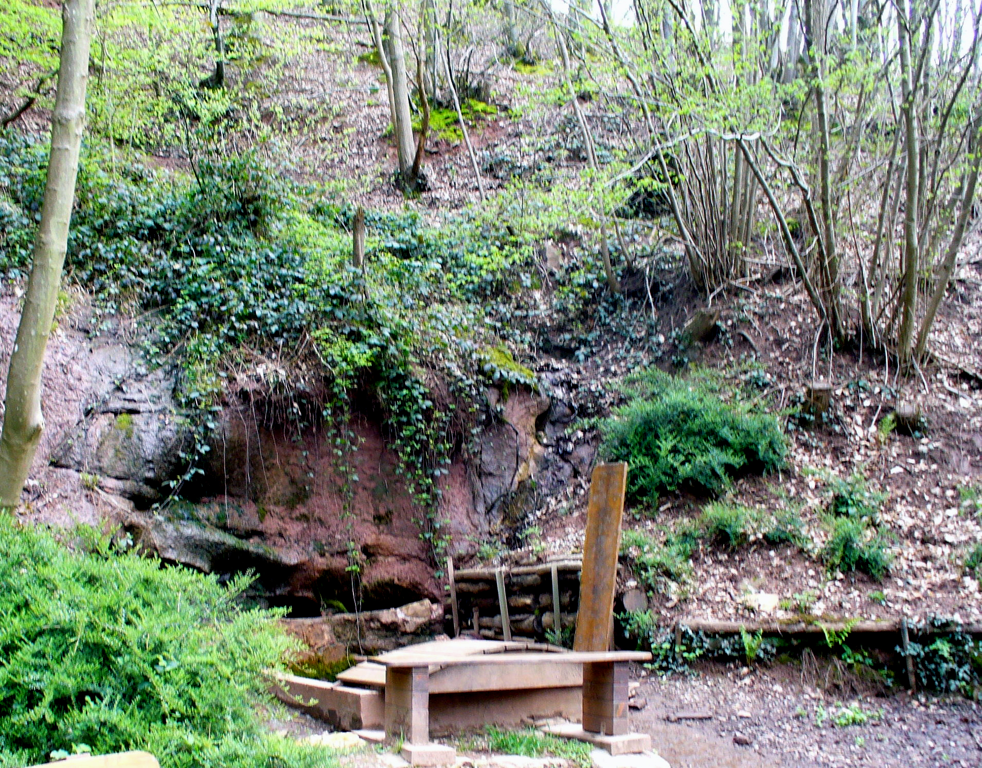 The "Heidenborn", the spring 'Am Irminenwingert' near the ancient Lenus Mars temple in Trier.